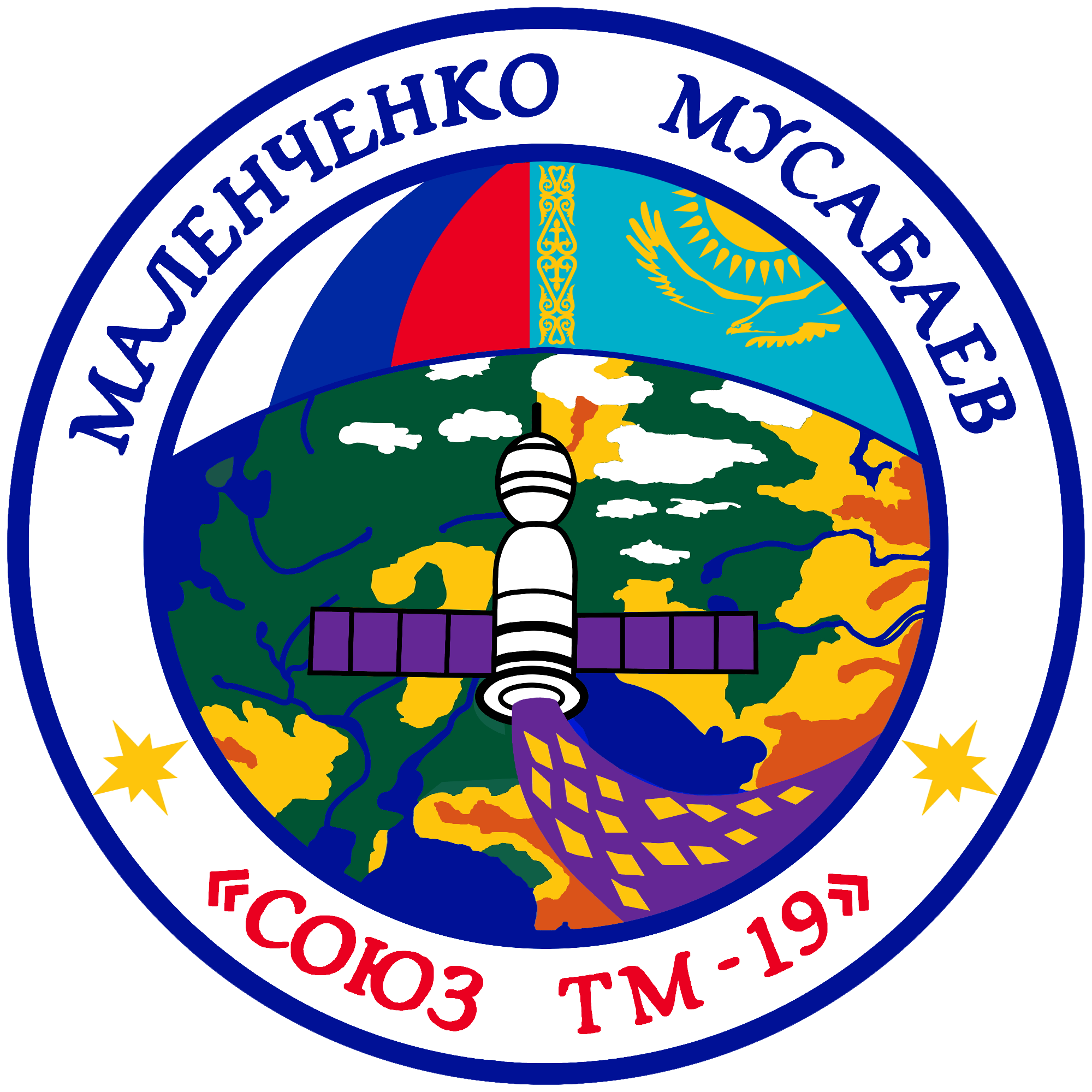 The official crew patch for the Russian Soyuz TM-19 mission, which delivered the EO-16 crew to the space station Mir. The patch was redrawn by Jorge Cartes (JCR) from Spacepatches.nl